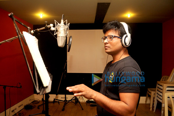 Shahid Mallya at Mahurat of film 'Come on Doctor'.